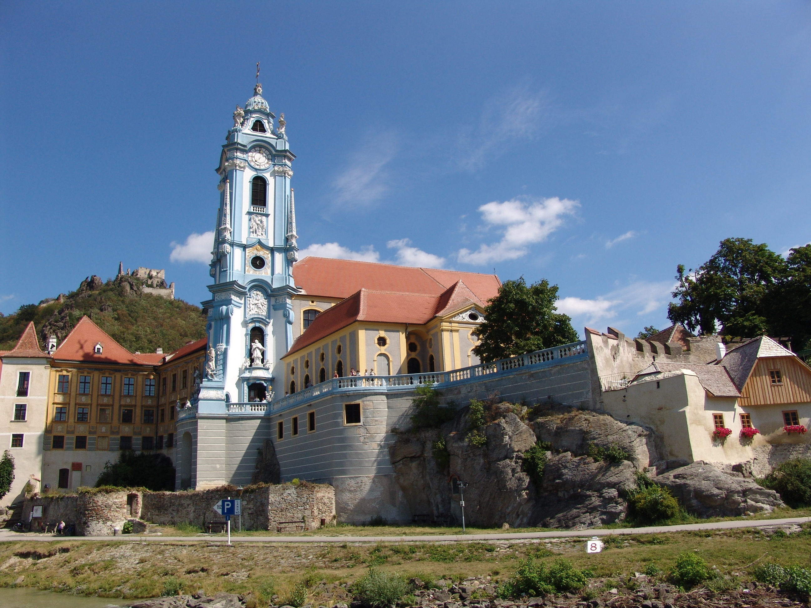 Church of Dürnstein in the Wachau, a landscape of high visual quality formed by the Danube river in Lower Austria / Austria / Middle Europe